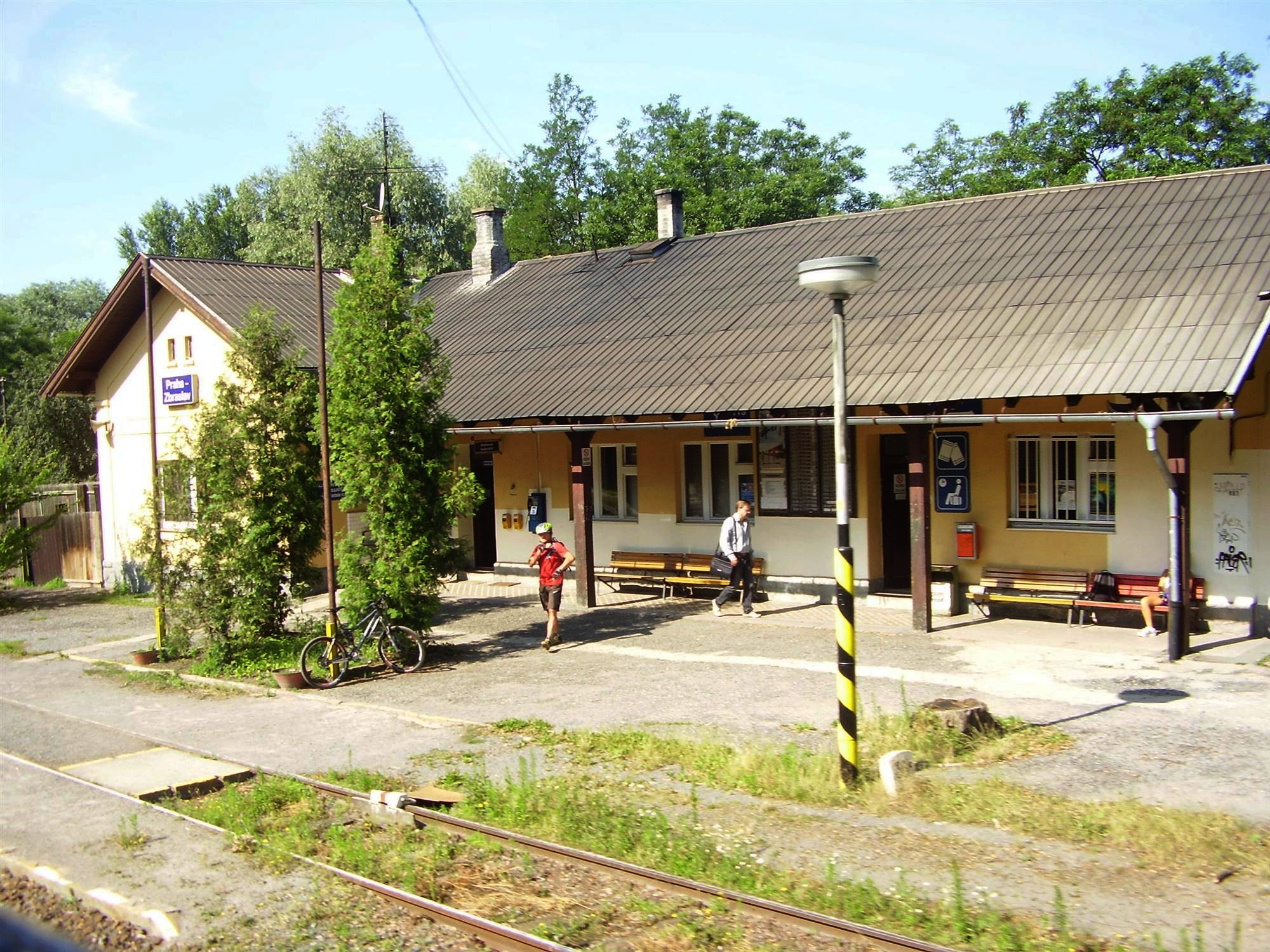 Train station in Prague-Zbraslav